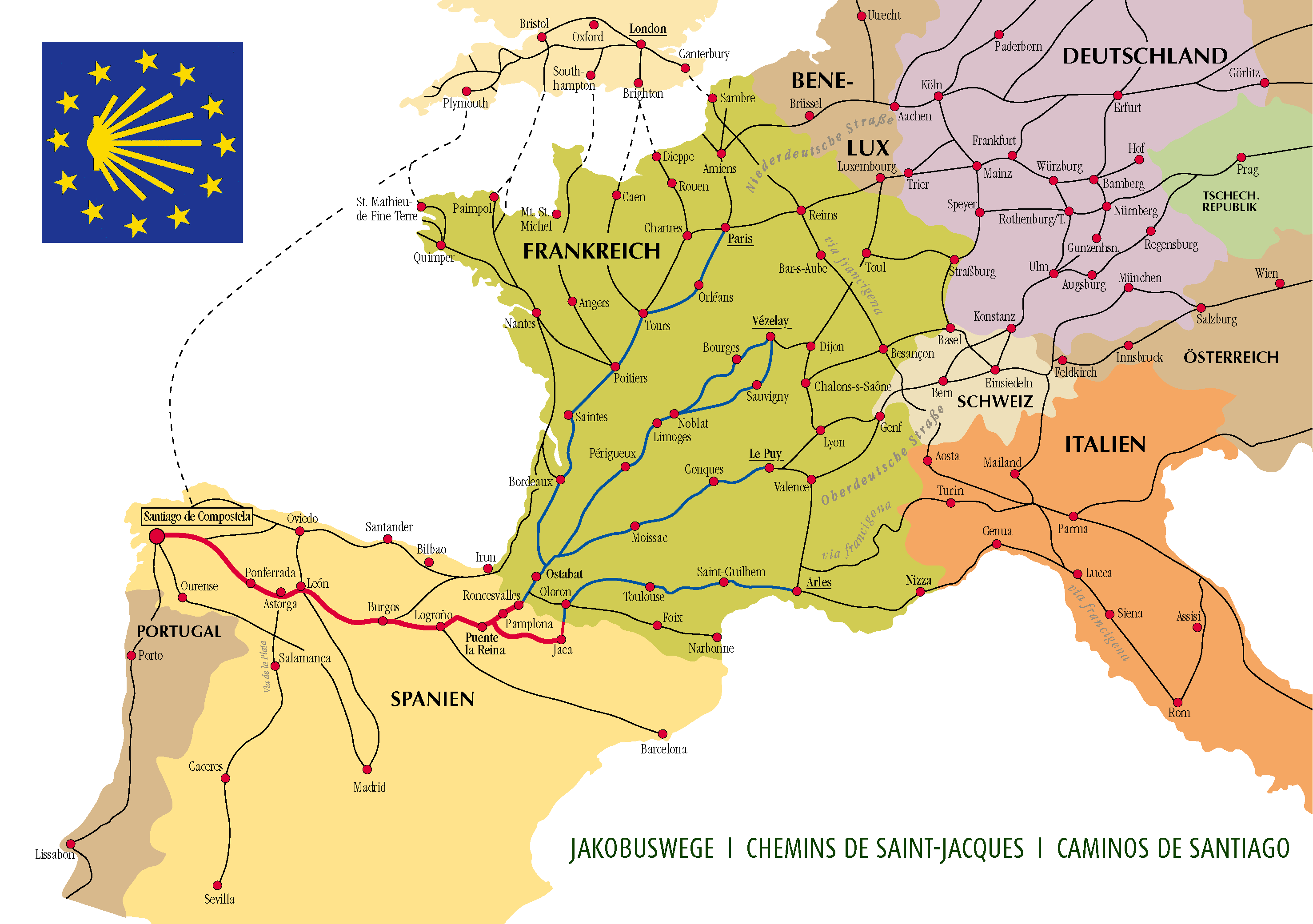 Map of the travels of St. James in Western Europe